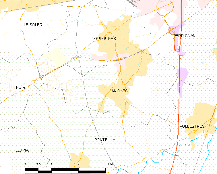 Map of French municipality